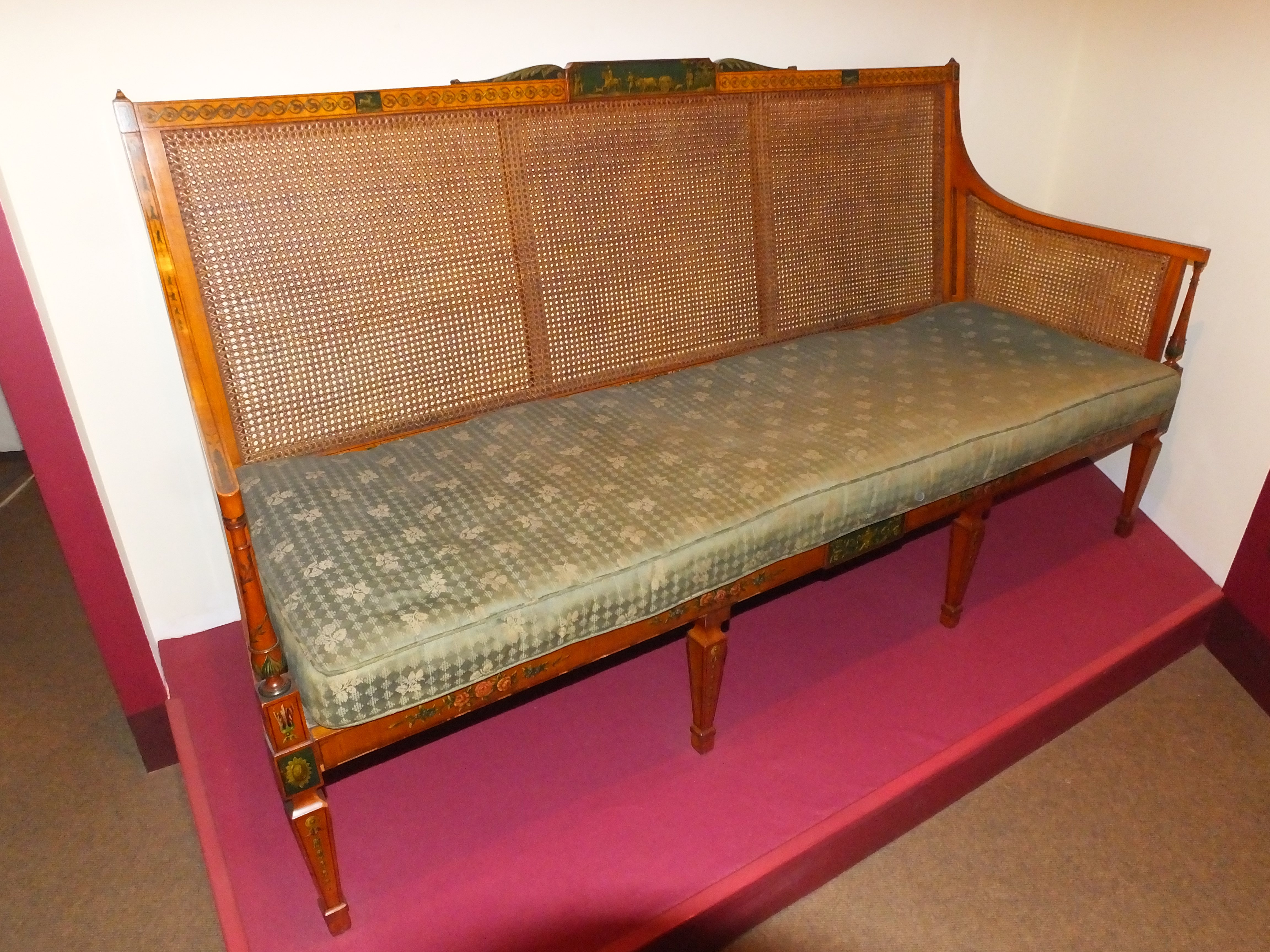 Taken during the tour and editathon at the Judges' Lodgings, Lancaster. 1900 Cane seated settee in the Adam style Gillows in Lancaster made this settee in 1900 in the Adam style', made popular in the 1878 Paris Exhibition. It was made from measured drawings from before 1800.